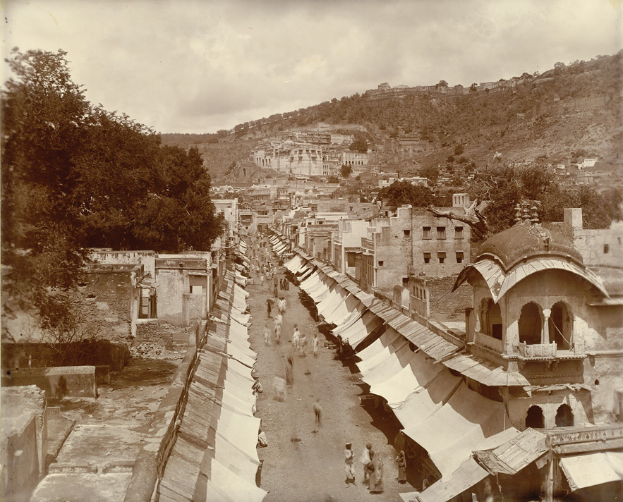 City bazar, Bundi. Photographer: Kale, Gunpatrao Abajee Medium: Photographic print Date: 1900 ZoomifyInteractive zoomable image (needs Flash) Print imageFull size printable image More metadata View looking along a bazaar at Bundi taken by Gunpatrao Abajee Kale, c.1900. The photograph is from an album of views of Bundi formerly in the collection of Horatio Kitchener, 1st Earl Kitchener of Khartoum and Broome, (1850-1916), who was Commander in Chief of India between 1902 and 1909. Bundi is situated in a narrow valley within the Aravalli Hills in Rajasthan. It was the capital city of the major princely state of Bundi during the heyday of the Rajputs. The ruling family of the state, the Hara Chauhan clan of Rajputs built a series of impressive palaces, gardens and tanks here, which appear to have been carved out of the hillside in several tiers. The town is full of attractive garden pavilions, step well tanks, temples and chattris, or memorial pavilions. One of the palace complexes of the town can be seen on the hill in the background of this view.